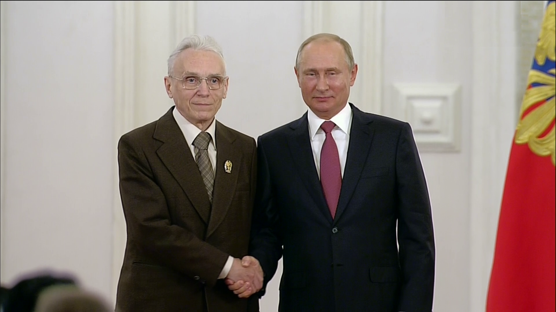 Громов С.П и Путин В.В. Награждение Государственной премией РФ (2018)